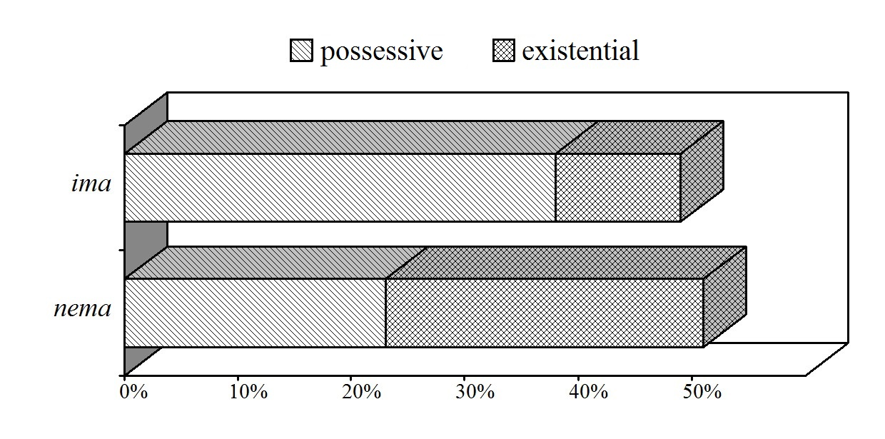 English translation of the file File:Existential clauses.jpg